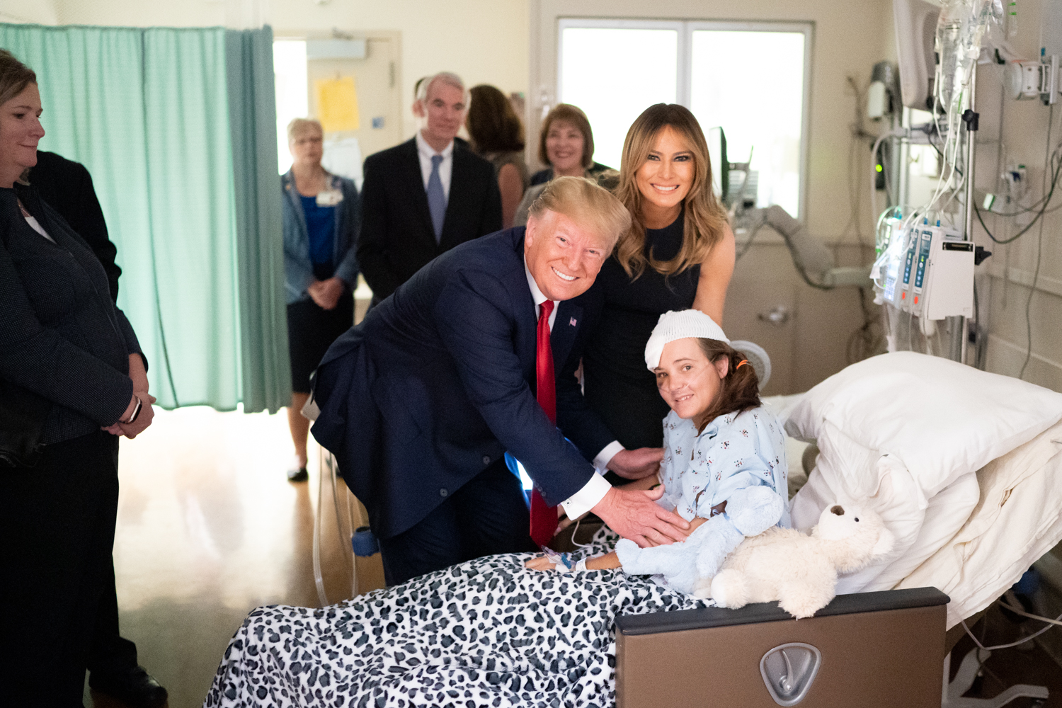 President Donald J. Trump and First Lady Melania Trump meet with survivors, families, hospital staff, and first responders, Wednesday, August 7, 2019, at Miami Valley Hospital in Dayton, Ohio. (Official White House Photo by Andrea Hanks)